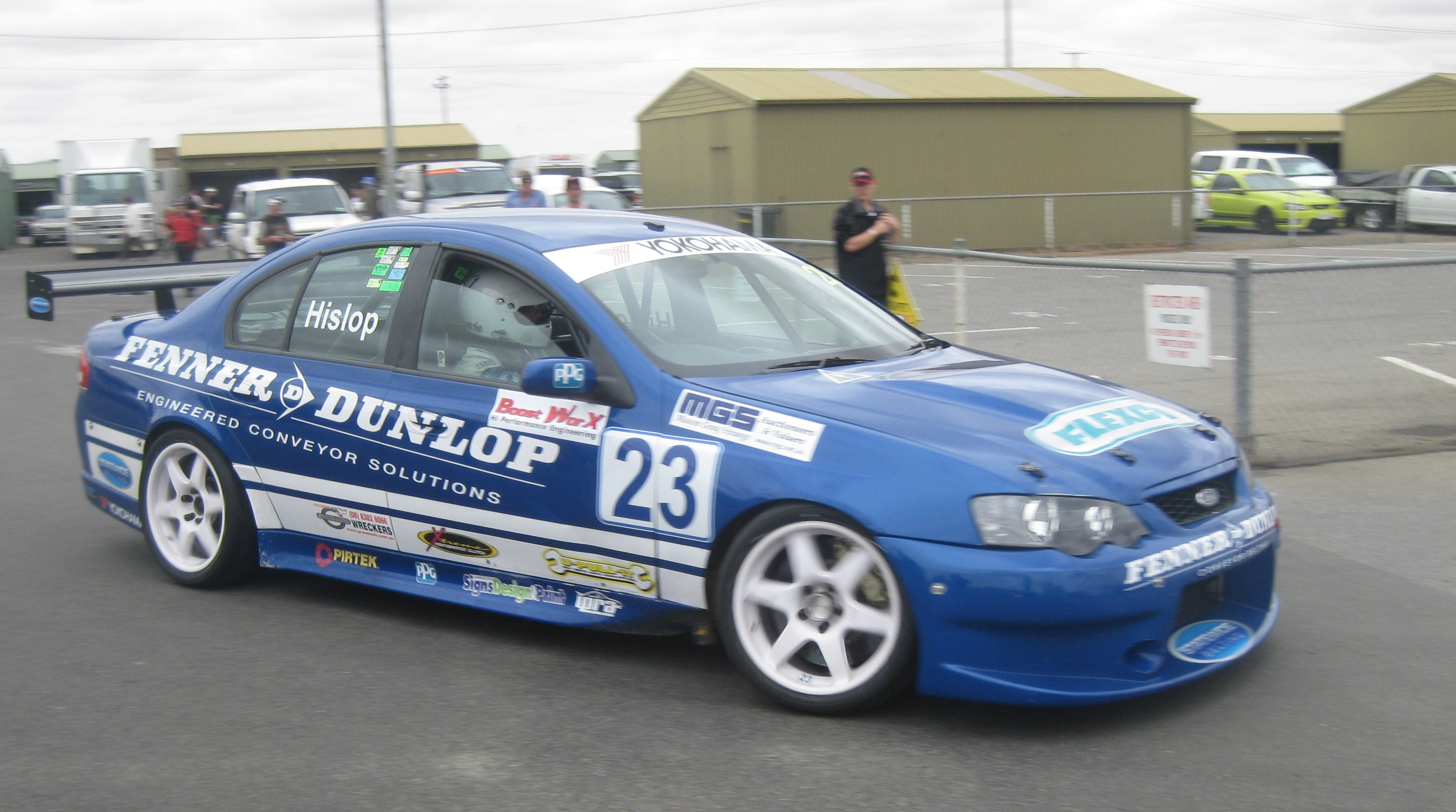 The Ford BF Falcon of Ray Hislop at Mallala Motor Sport Park in South Australia on 19 November 2011. Ray finished 8th in the Final of the 2011 Improved Production Nationals the following day.